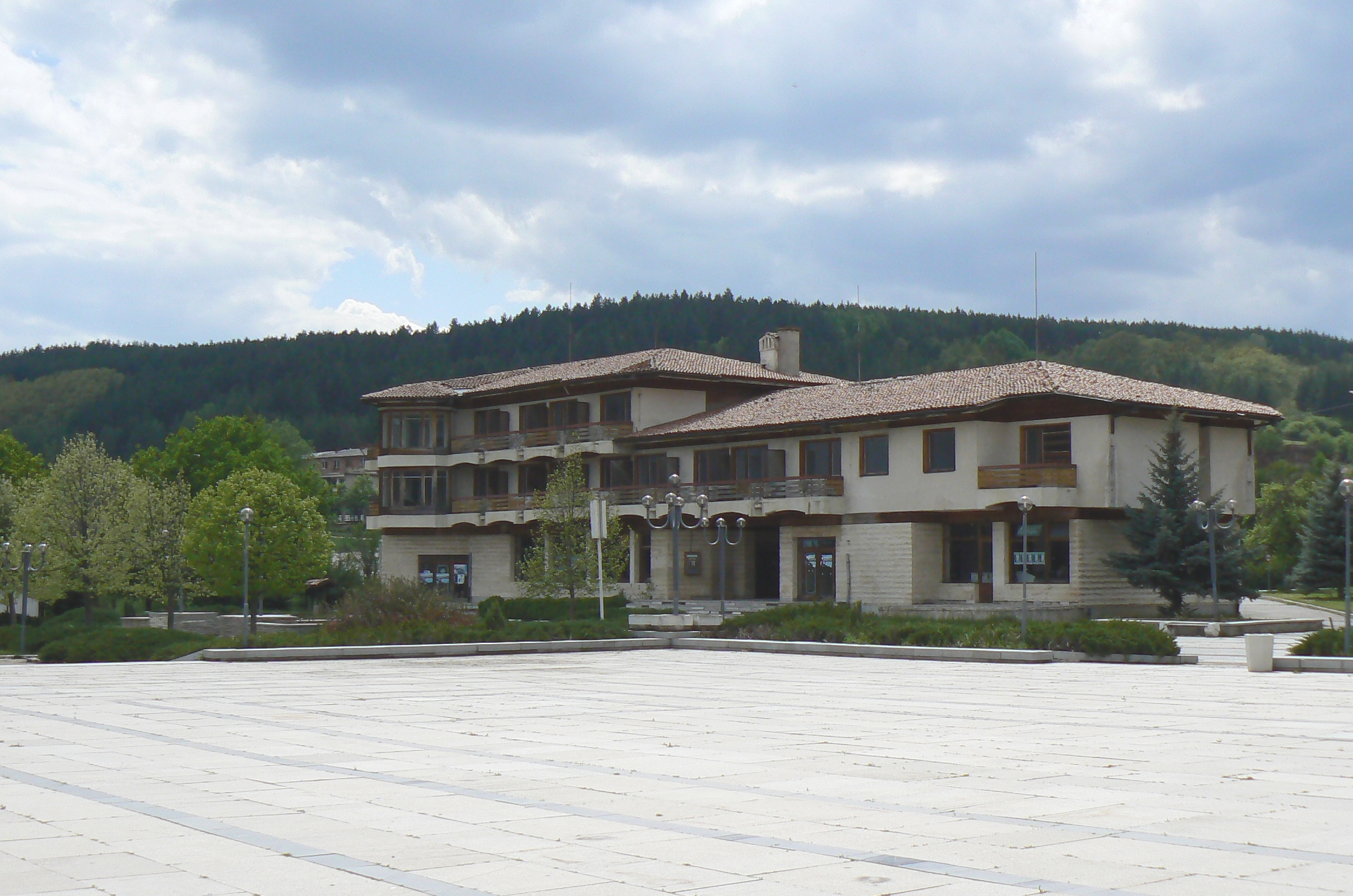 Centre of village Kovachevtsi, Pernik District, Bulgaria